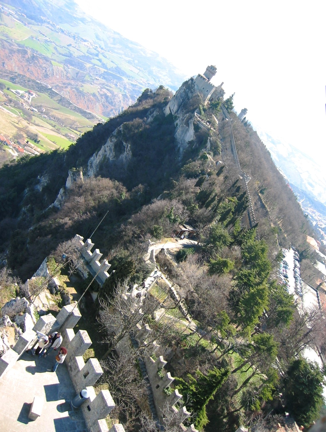 Chesta, the highest of Monte Titano's summits.